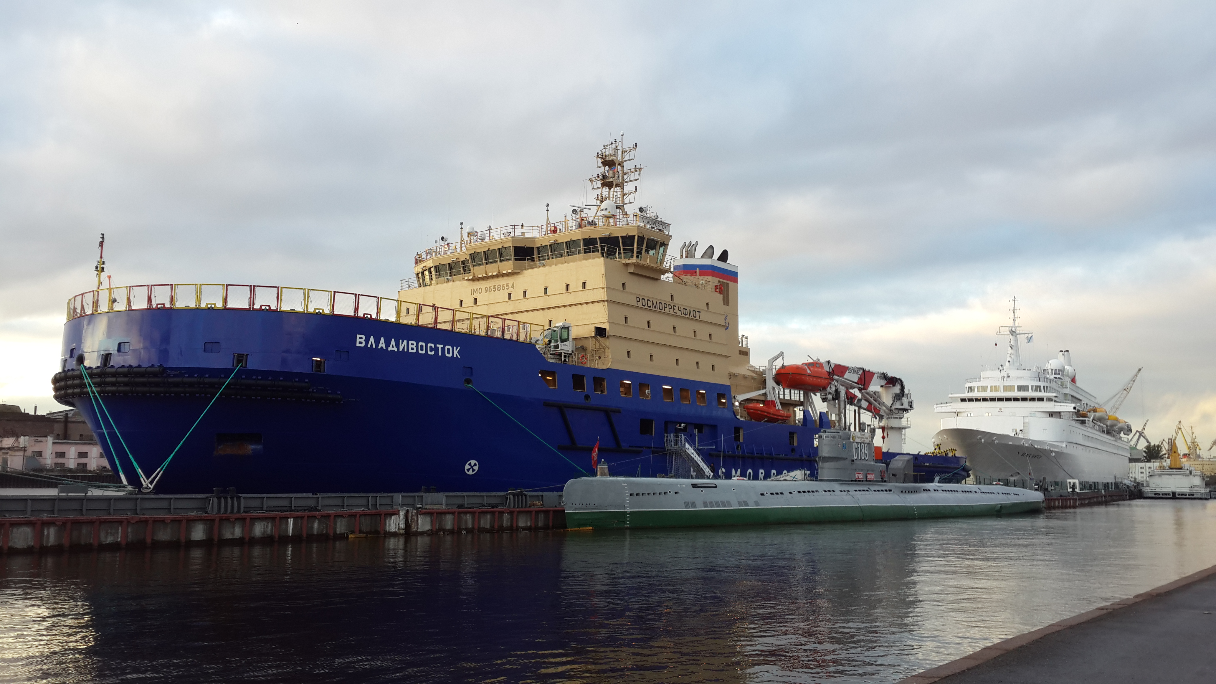 Vladivostok icebreaker anchored in Saint Petersburg (Black Watch behind her; S-189 alongside the pier)